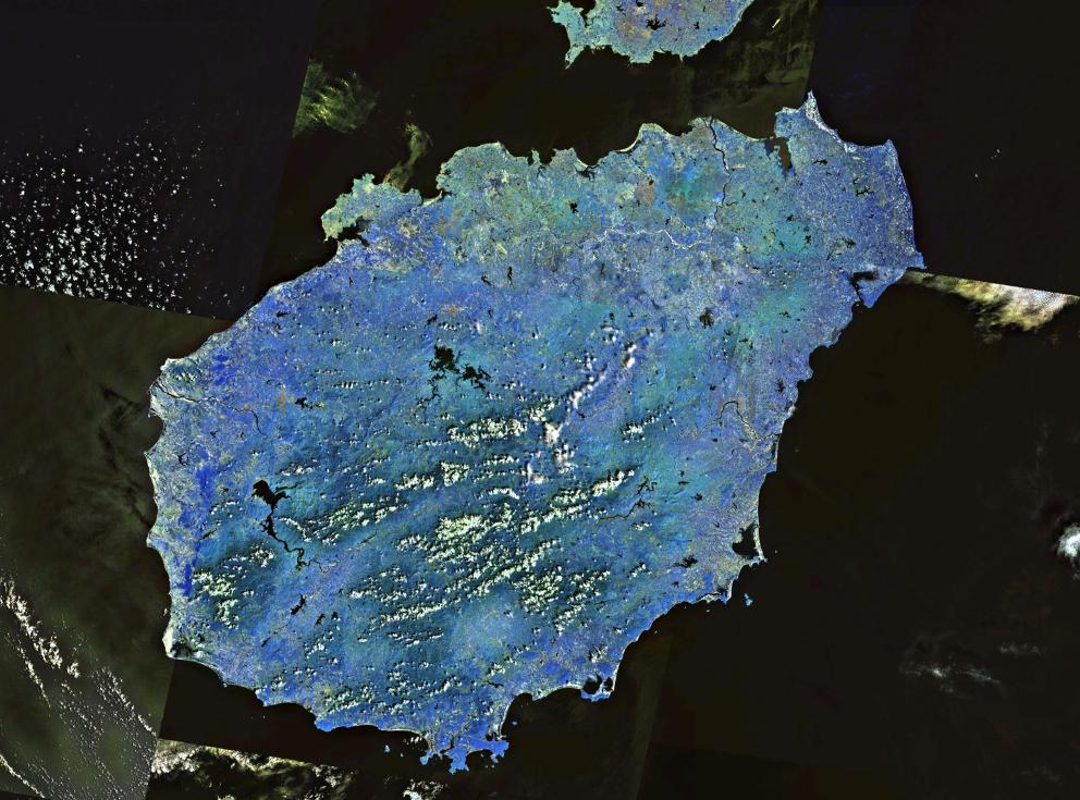 Hainan island, China. Satellite view.